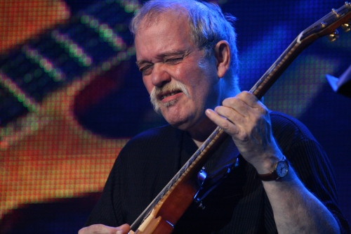 John Abercrombie playing at Bratislava Jazz Dayz festival 2007. Photo by Filip Drabek.